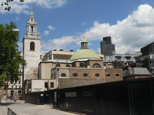 City parish churches: St. Stephen Walbrook, near to London, City of London, Great Britain. In Walbrook, opposite Bucklersbury. Rebuilt by Christopher Wren, following the great fire, in 1672-7. It is unusual to be able to see this much of the church, as the site (foreground) to the south has recently been demolished and is in the process of being rebuilt.